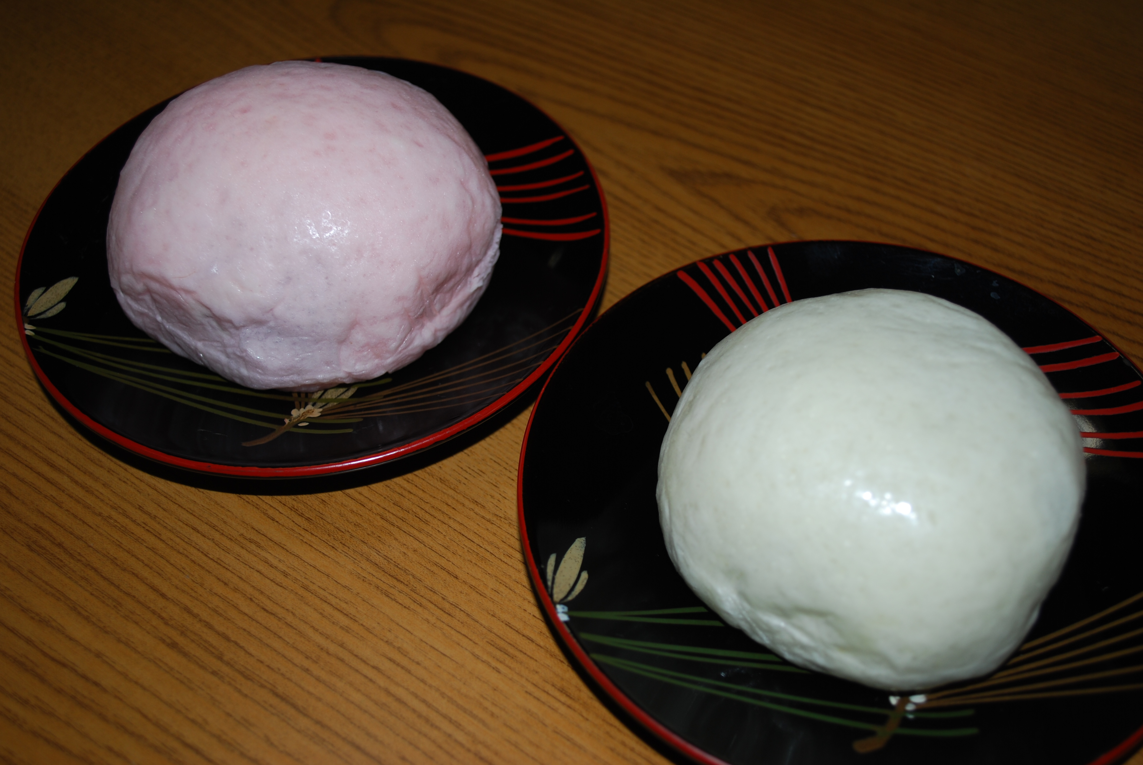 Red-and-white steamed bun,kouhaku-manjyu,Katori-city,Japan